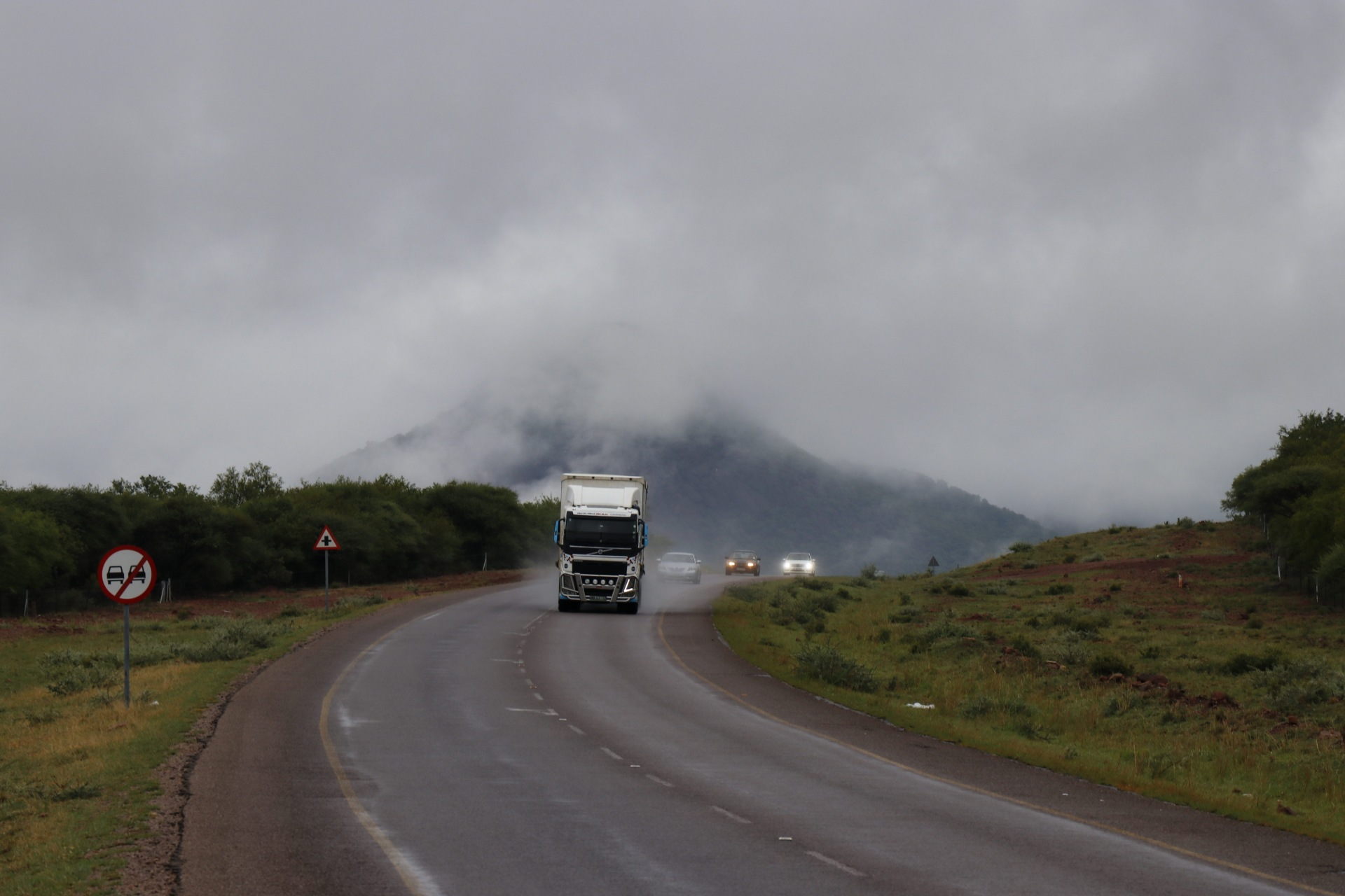 Trucks are the bloodline that keeps the regional economy alive by supplying vital goods and machinery This is an image with the theme "Africa on the Move or Transport" from: Botswana